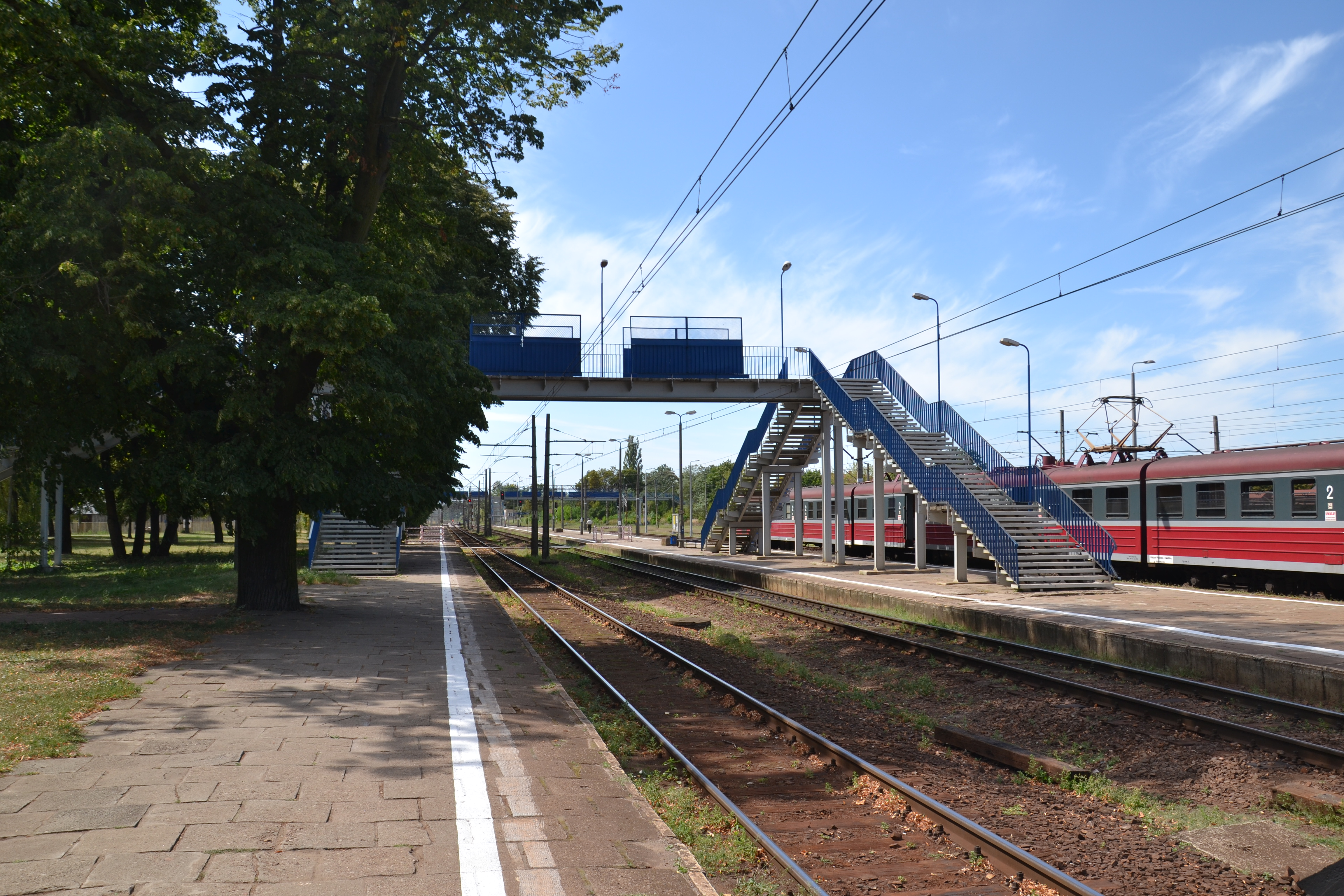 Perony stacji Małkinia This photo was taken during Railway Wikiexpedition 2015 set up by Wikimedia Polska Association in cooperation with Fundacja Grupy PKP. You can see all photographs in category Wikiekspedycja kolejowa 2015.